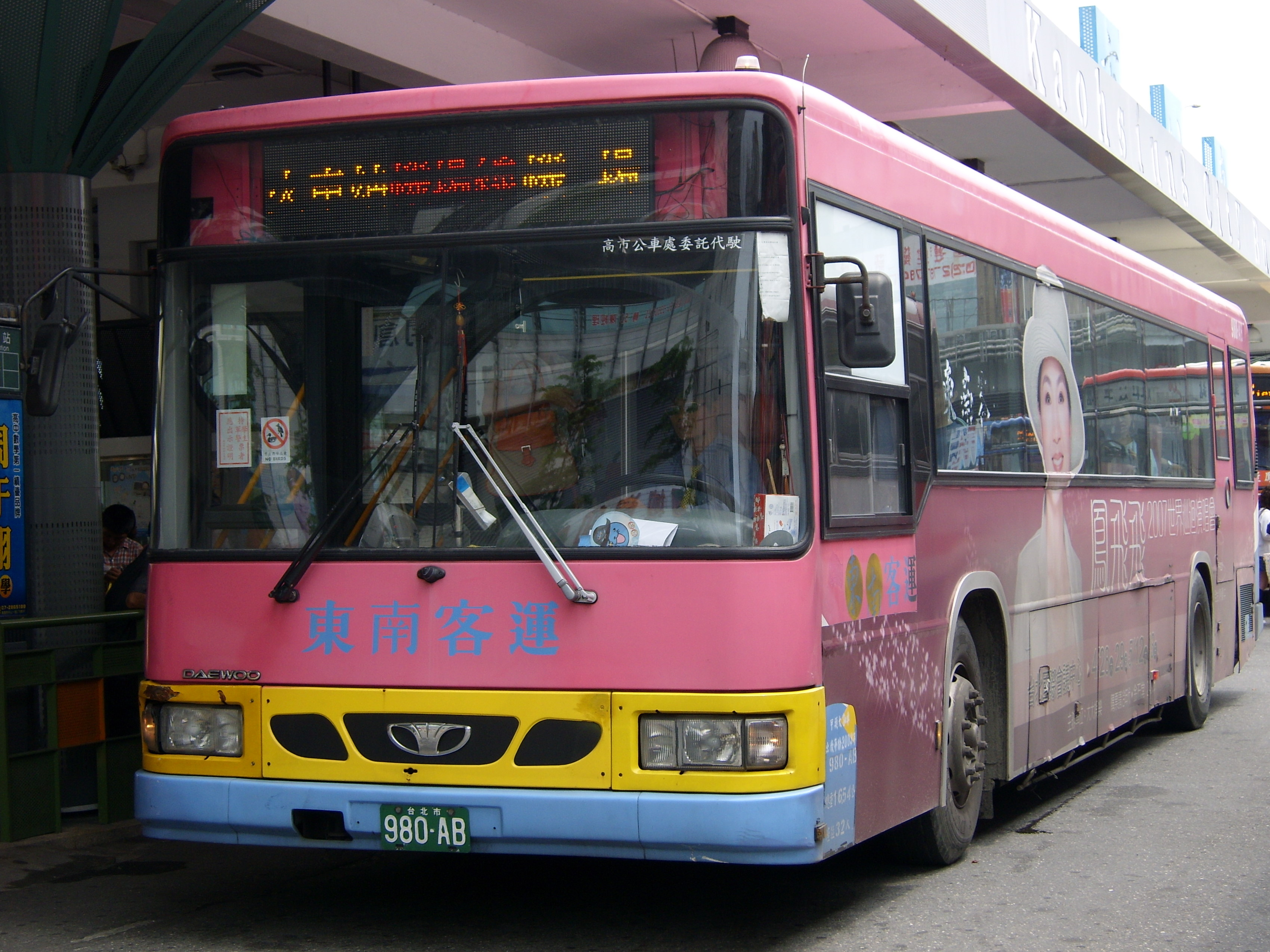 Daewoo BV120MA bus 980-AB of Southeast Bus.